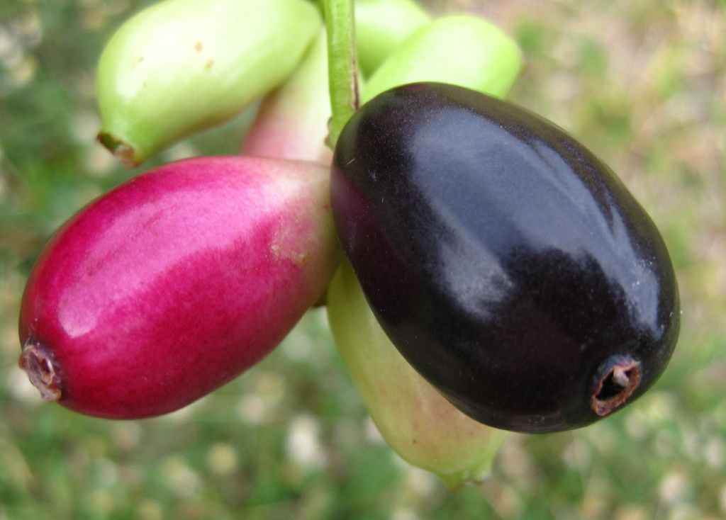 The fruits of Syzygium cumini (jambolão in Portuguese) are black when ripe. Photographed in Pemba, Mozambique, Africa